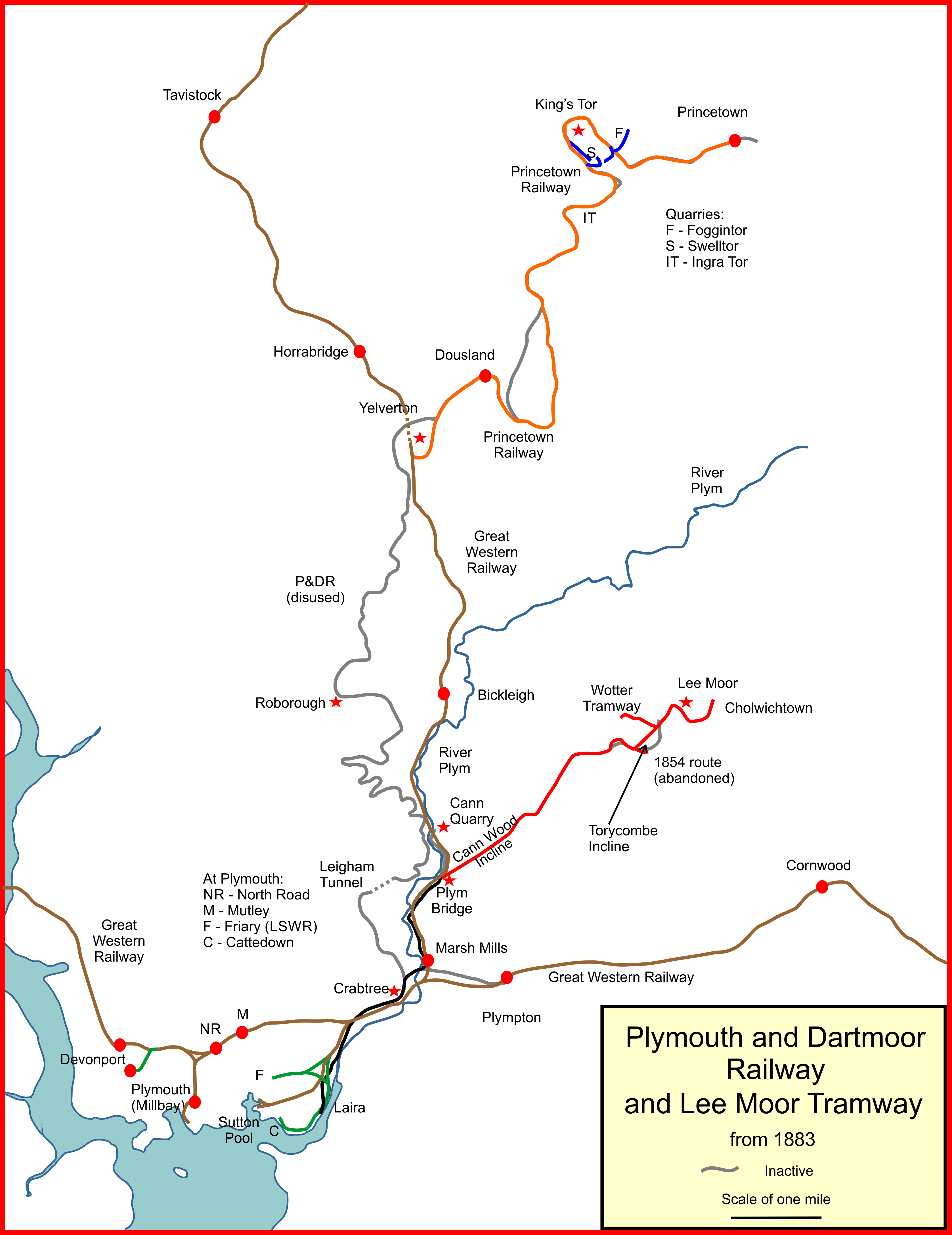 Map of Plymouth and Dartmoor Rly England in 1883